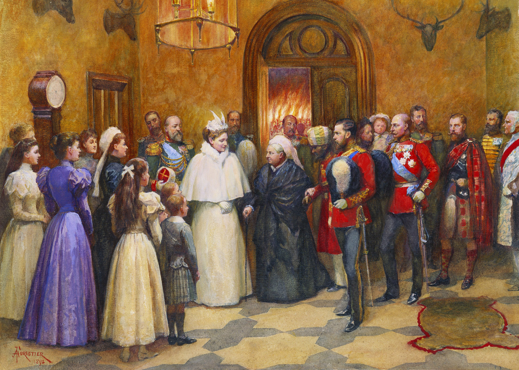 Reception of the Emperor and Empress of Russia at Balmoral, 22 September 1896 dated 1896 22.4 x 31.5 cm | RCIN 923195 DM 1899: the most prominent figures are, from l. to r.: Ps Margaret of Connaught, the Dss of Connaught, Princes Alexander, Maurice & Leopold of Battenberg, the Pss of Wales, the Empress, the Queen, the Emperor, etc. Signed and dated.